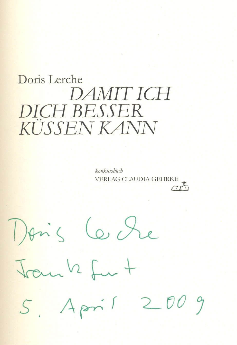 autograph from Doris Lerche (German writer)